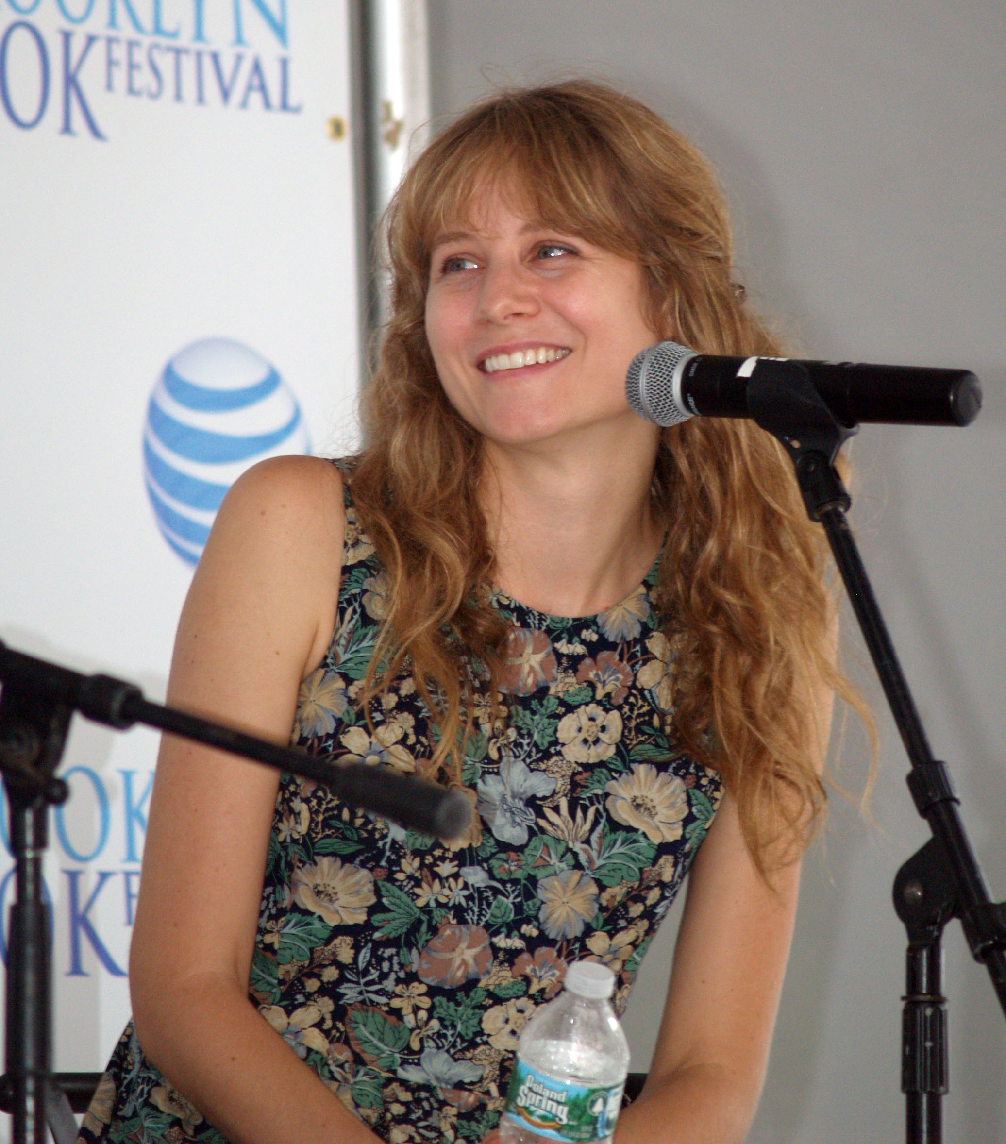 Playwright Annie Baker speaking on the "Playwrights in Conversation" panel at the the 2014 Brooklyn Book Festival. This photo was created by Luigi Novi. It is not in the public domain, and use of this file outside of the licensing terms is a copyright violation.